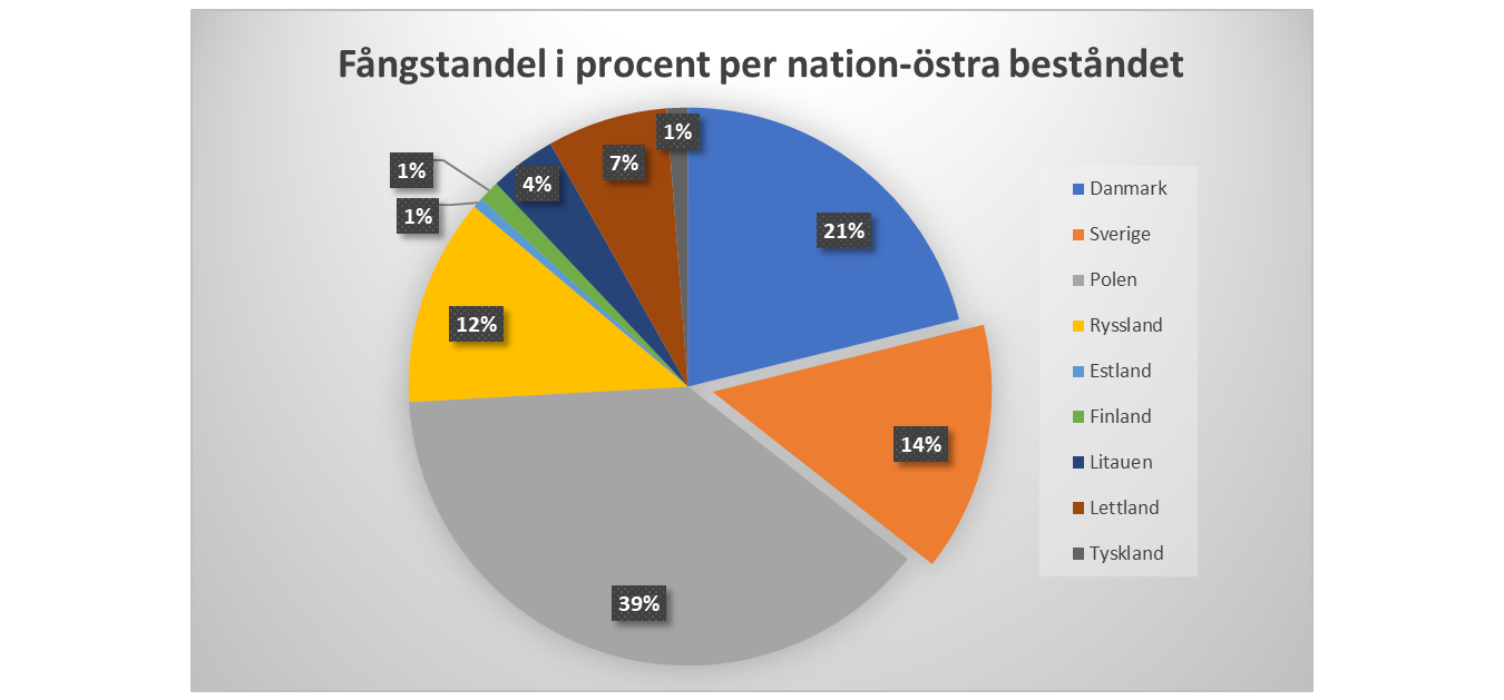 Cod fishing in the Baltic sea, International caption in english coming soon. This diagram is in swedish.